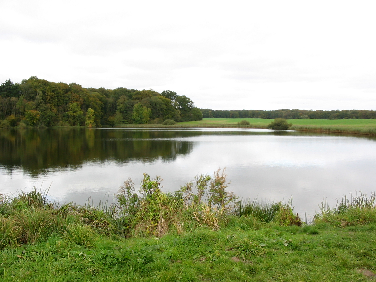 Schwarzer See near Zickhusen in Mecklenburg-Vorpommern, Germany